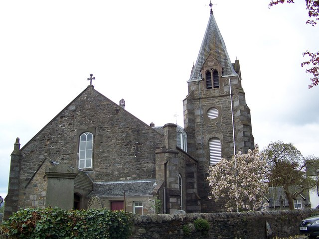 Moulin Kirk Heritage Centre The Church was closed for public worship in 1989. From time to time various organisations used the Church for exhibitions, but by 2003 it became obvious that work had to be carried out to make it wind and watertight and Pitlochry Church of Scotland put it up for sale. The Church was bought in 2004 by the owners of the Moulin Hotel, whose vision is, to create a Heritage Centre within the walls of the old church.